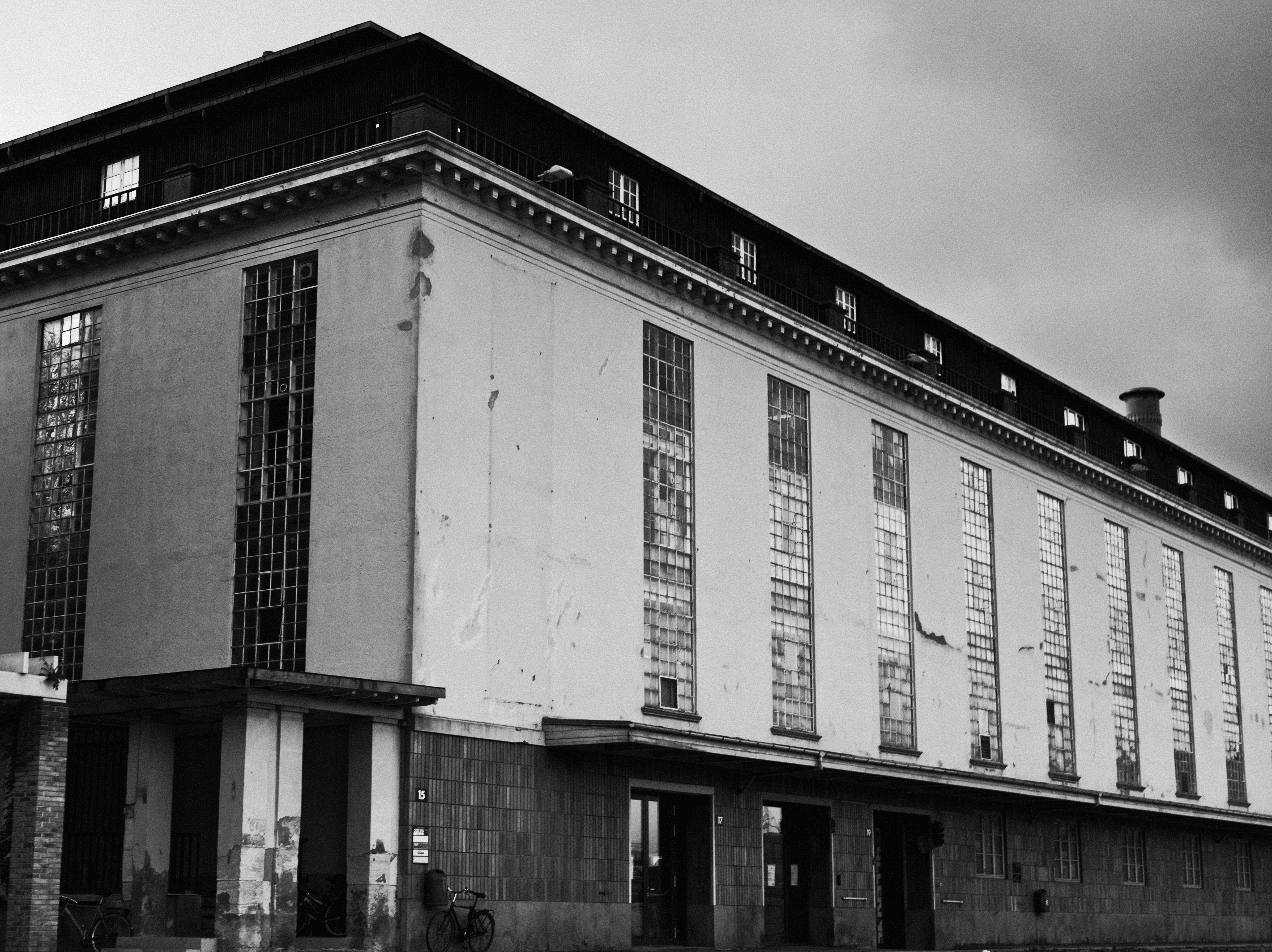 The Tap E building in Carlsberg, Copenhagen, Denmark